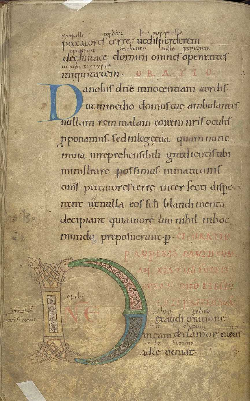 Folio 111 verso from a psalter (British Library, Stowe 2). Initial D from Psalm 101 (Hebrew 102): Domine exaudi orationem meam, et clamor meus ad te veniat (O Lord, hear my prayer, and let my cry come unto Thee)